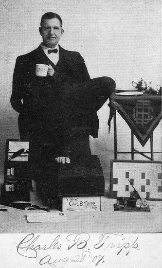 Charles B. Tripp autographed photo from 1907